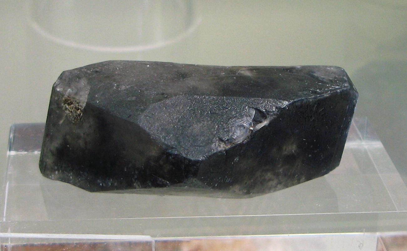 Blödite - Locality: San Luis Obispo, Californien - Exposed in the Mineralogical Museum, Bonn, Germany